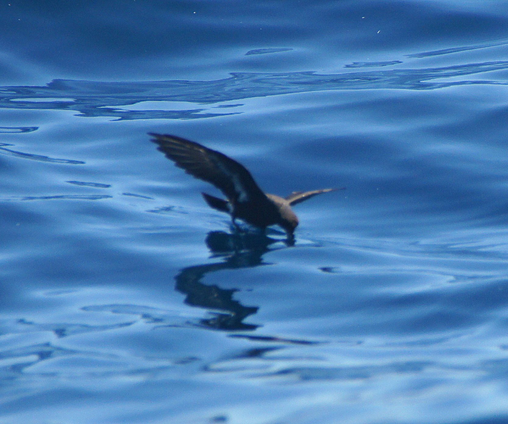 European Storm Petrel Hydrobates pelagicus, off Cape Town, South Africa